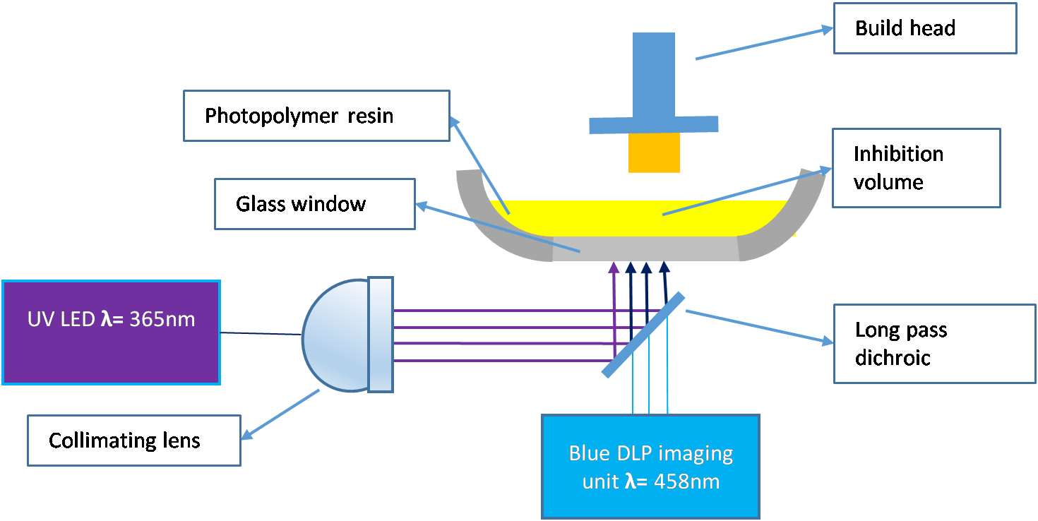 A mixture of photo initiators and photo inhibitors is used in the setup. The absorbance spectra of two material is orthogonal this allows us to control the process with the two orthogonal light sources. As the material is generated layer by layer the tray is gradually lifted and the photo inhibitors will not allow adhesion near the window.